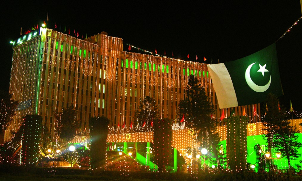 ZTBL Headquarters side view on Pakistan Independence day;14th Aughust